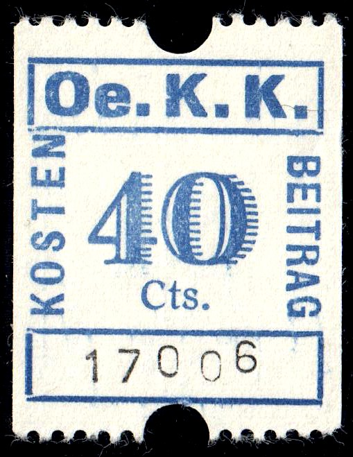 Switzerland Basel 1942 Tourism revenue 10Rp - 1. Perforated 13.75, inscription 5 numerals.